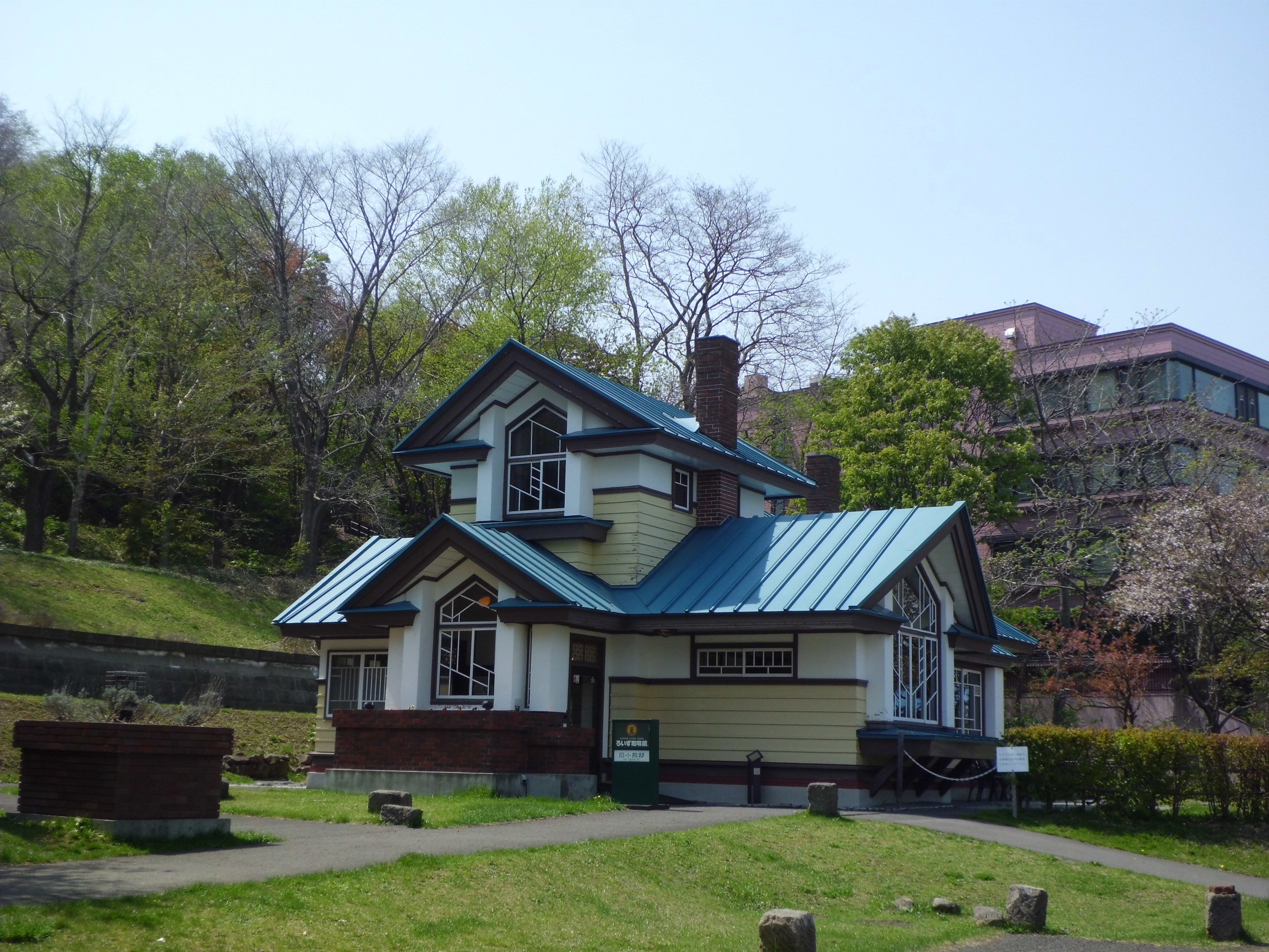 Lloyd's Coffee Former Oguma's House